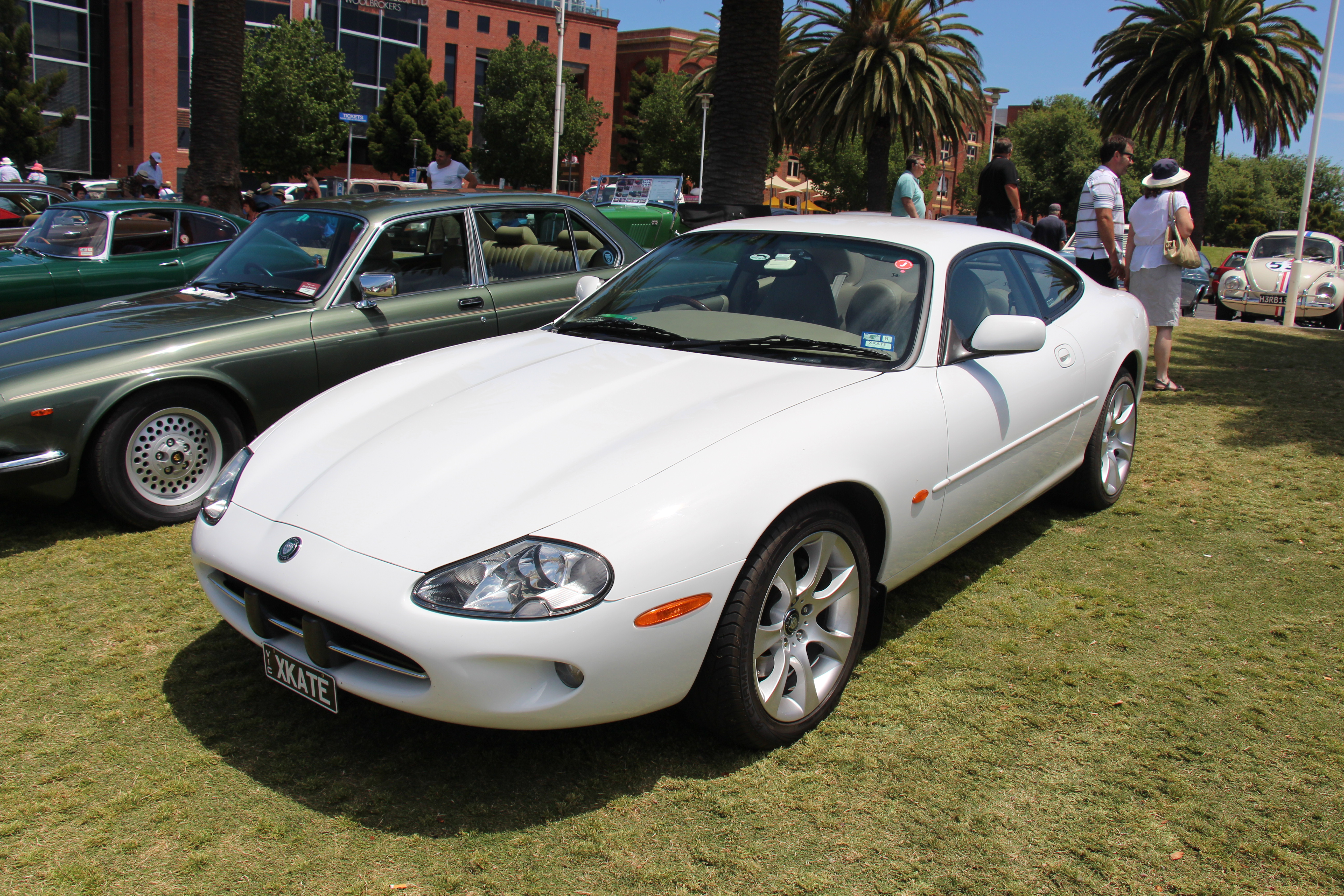 The XK8 was built form 1996-2006, available in Coupe or Convertible. Derived from the XJS, it shared its platform with the Aston Martin DB7. In 2004 the grille was refreshed with a horizontal chrome bar through the centre Engine; the new 4.0 litre V8 (supercharged option from 1998, the XKR, and from 2003 4.2 litre in normal or supercharged)